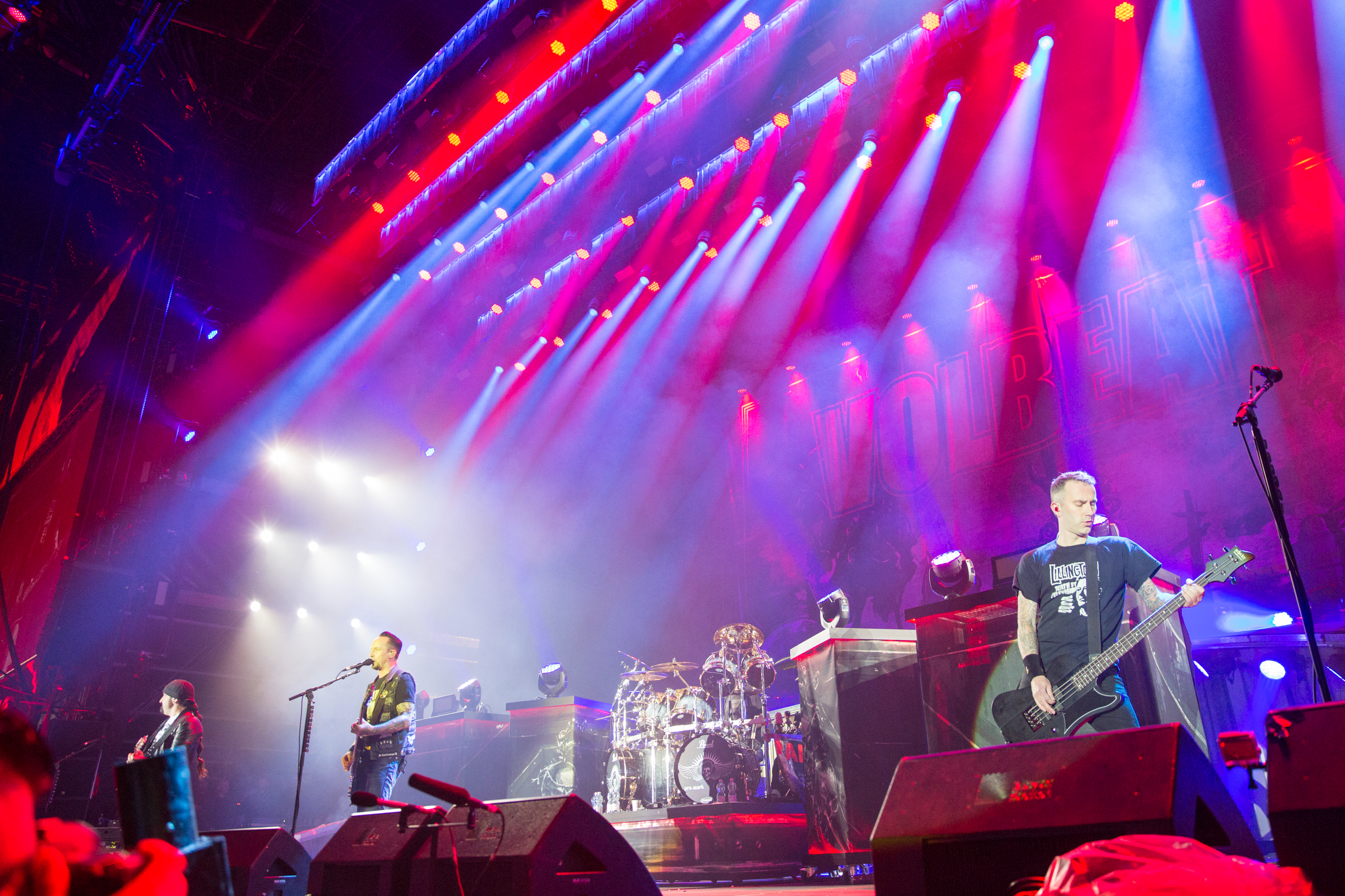 Volbeat at Rock Am Ring 2016 (Mendig)